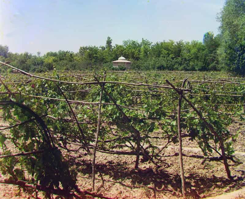 A vineyardPhotograph between 1905 and 1915 by Sergei Mikhailovich Prokudin-Gorskii. Public domain from .